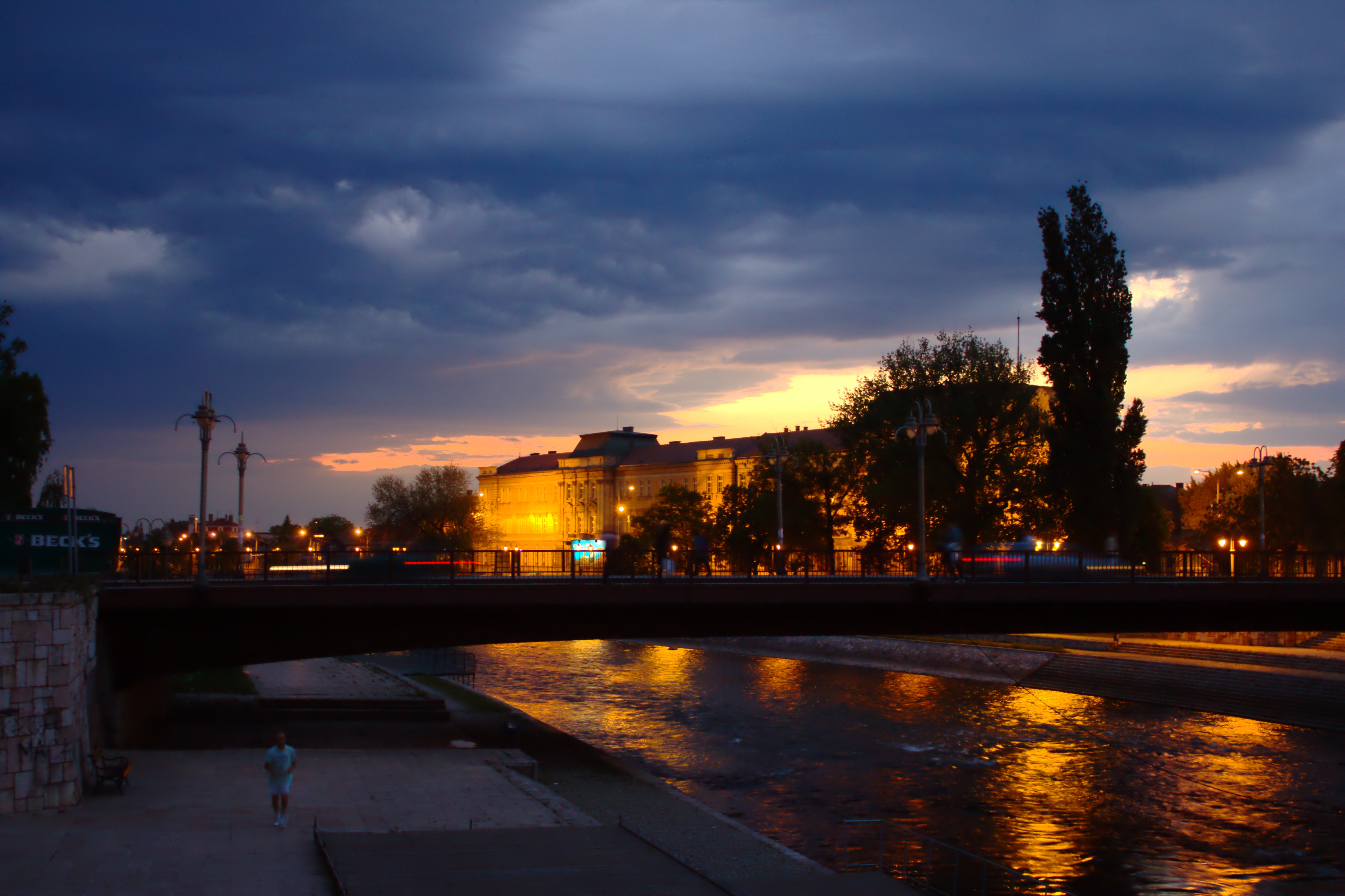 Nišava River in the central part of the town of Niš during a spring evening, Serbia